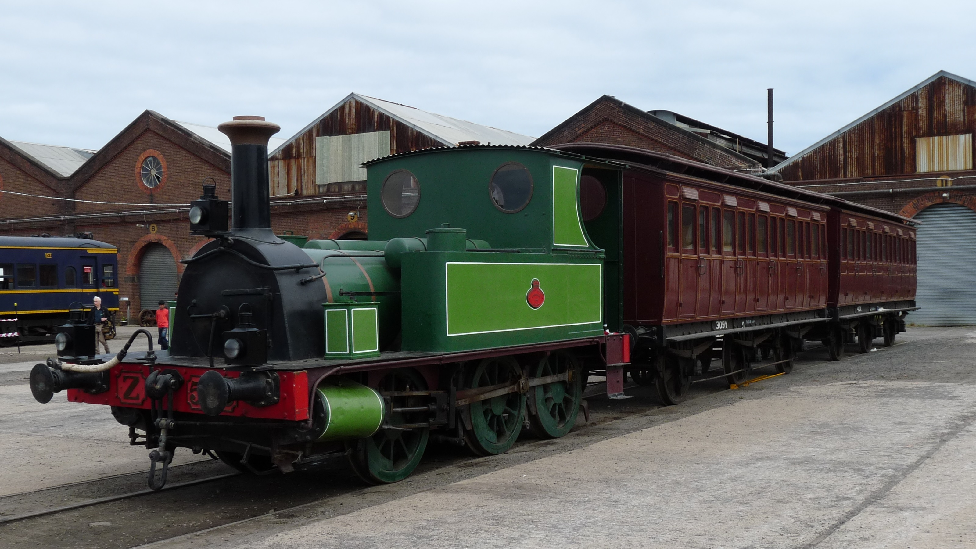 Victorian Railways Z-Class Locomotive Z 526 on display at Newport Railway Workshops during a SteamRail open day, 14/03/2016